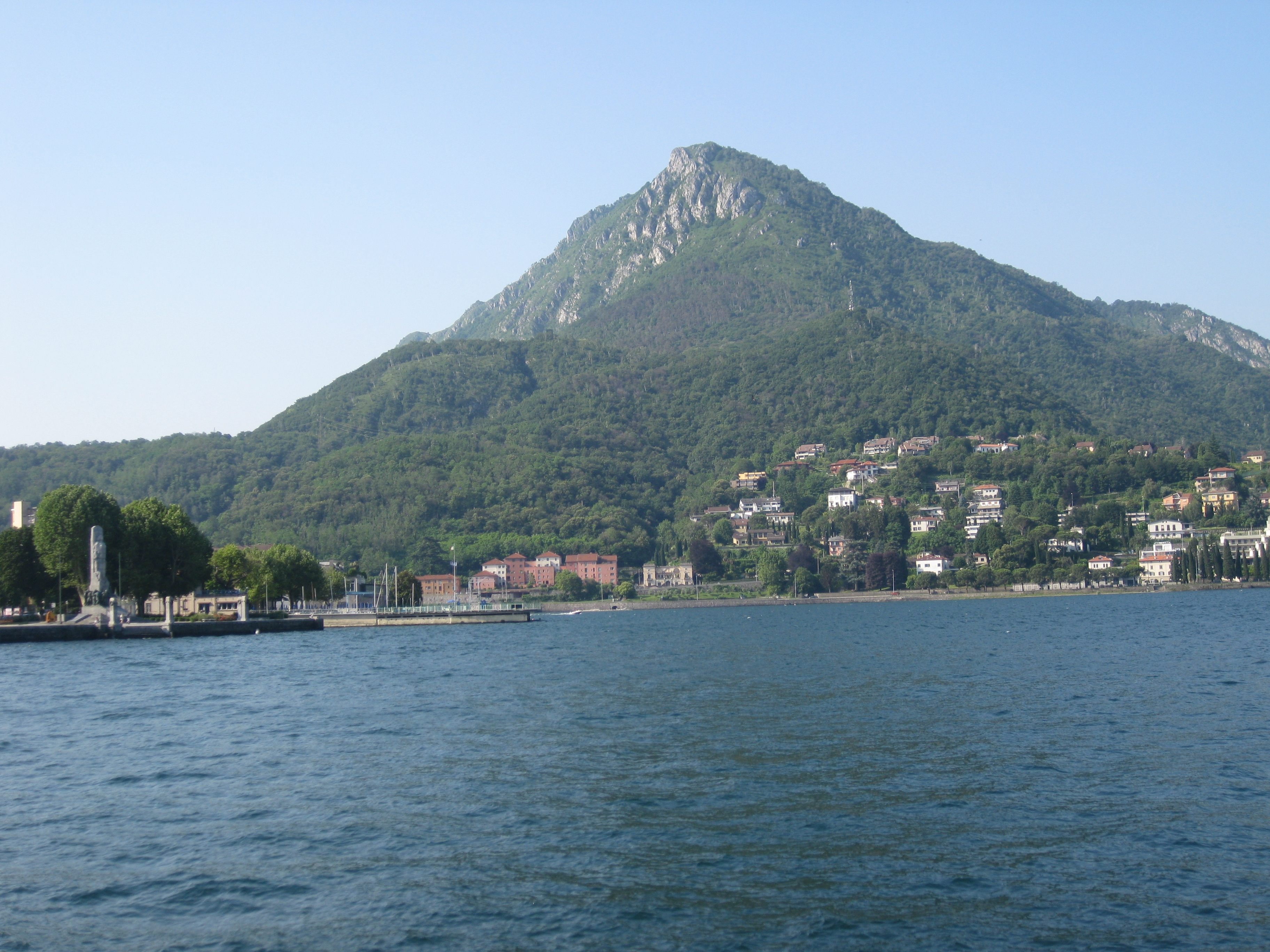 Lecco ITALY